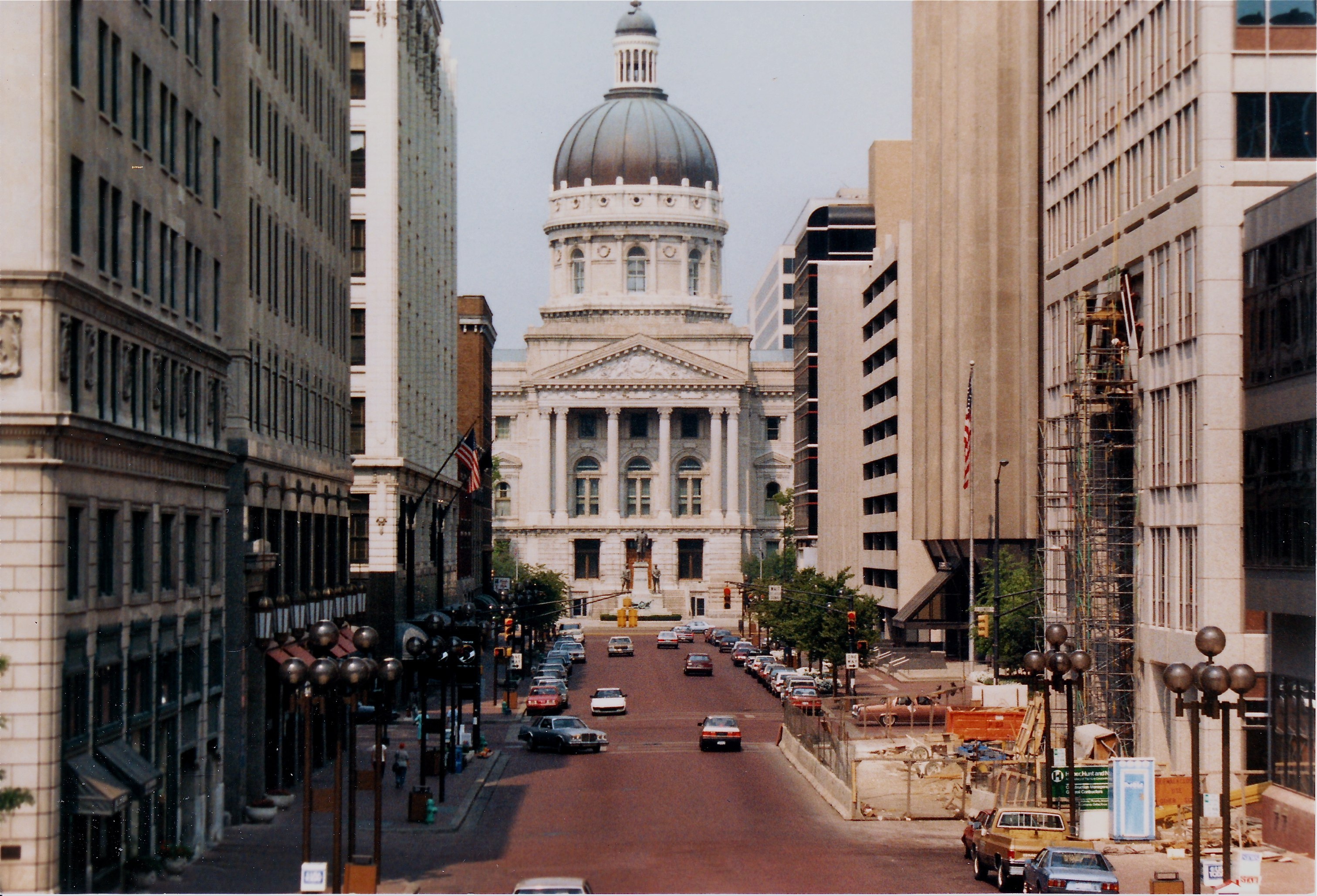 The Indiana State Capitol, Indianapolis, June 1988.